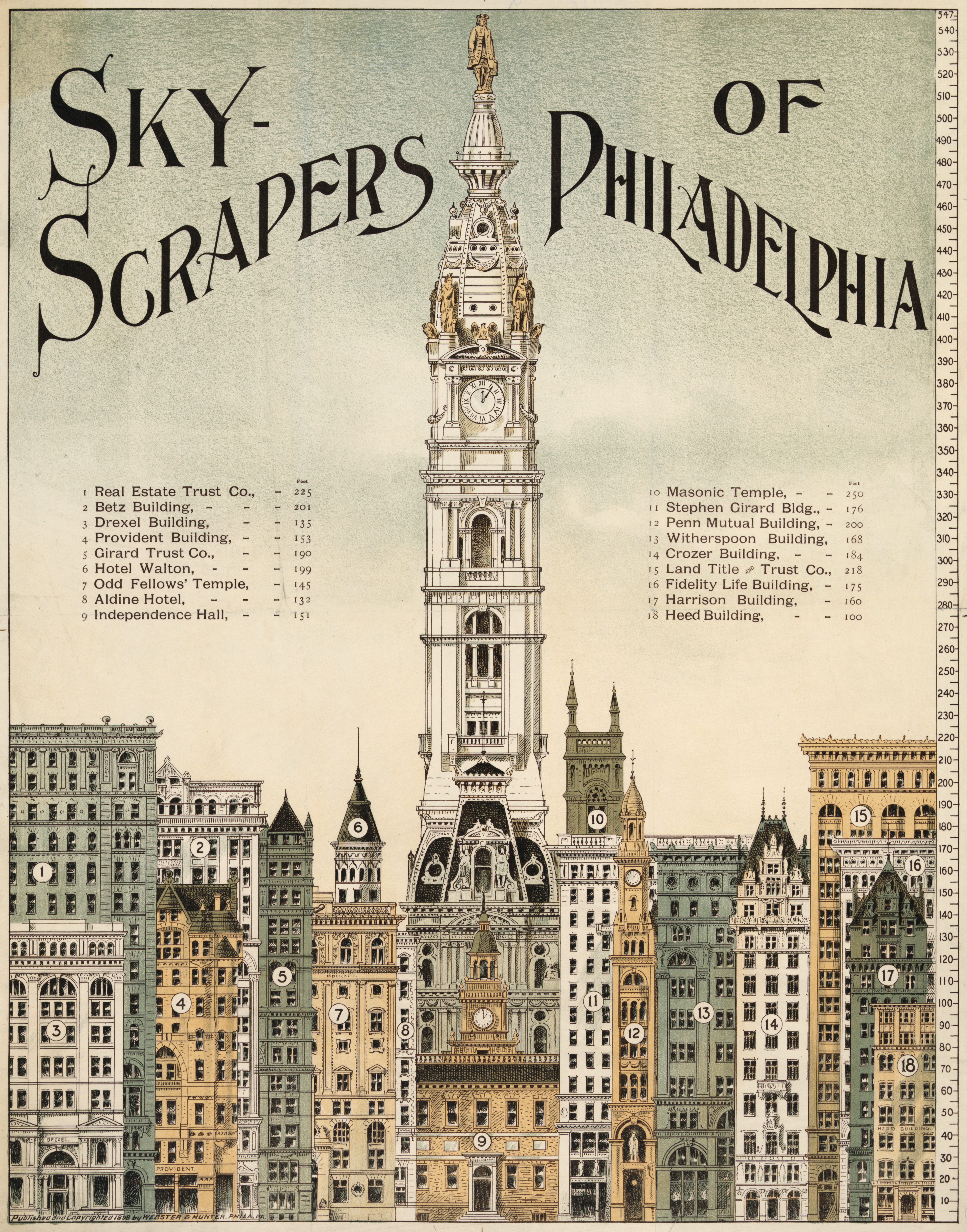 Sky-scrapers of Philadelphia. Poster by Webster & Hunter, 1898